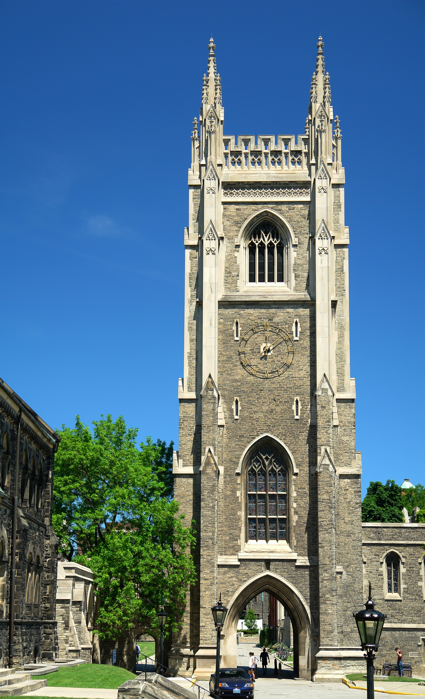 This is the Soldiers' Tower of the Hart House (University of Toronto). Photo by V.Samarin